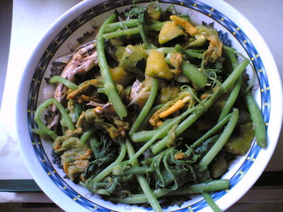 Dinengdeng.